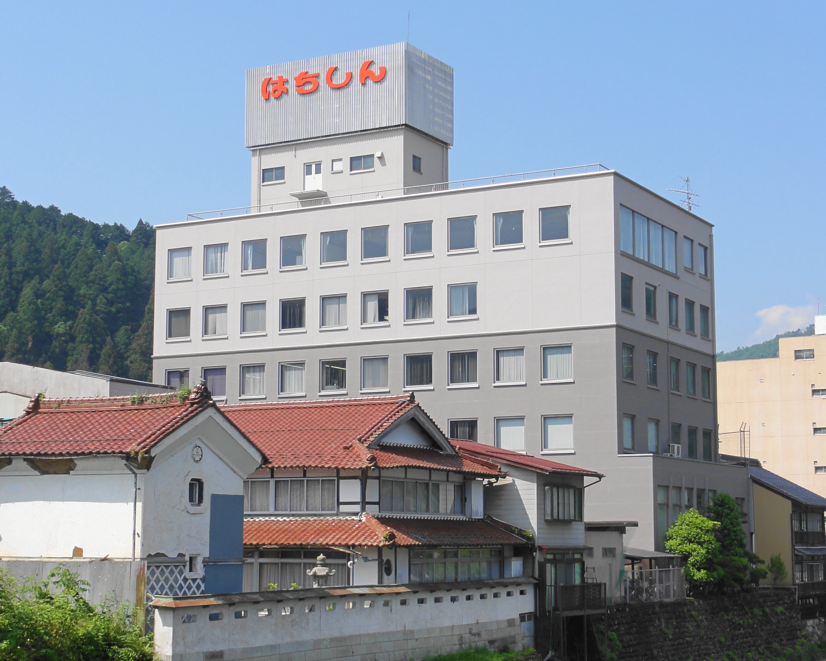 Hachiman shinkin bank(head office),Gifu prefecture, Japan